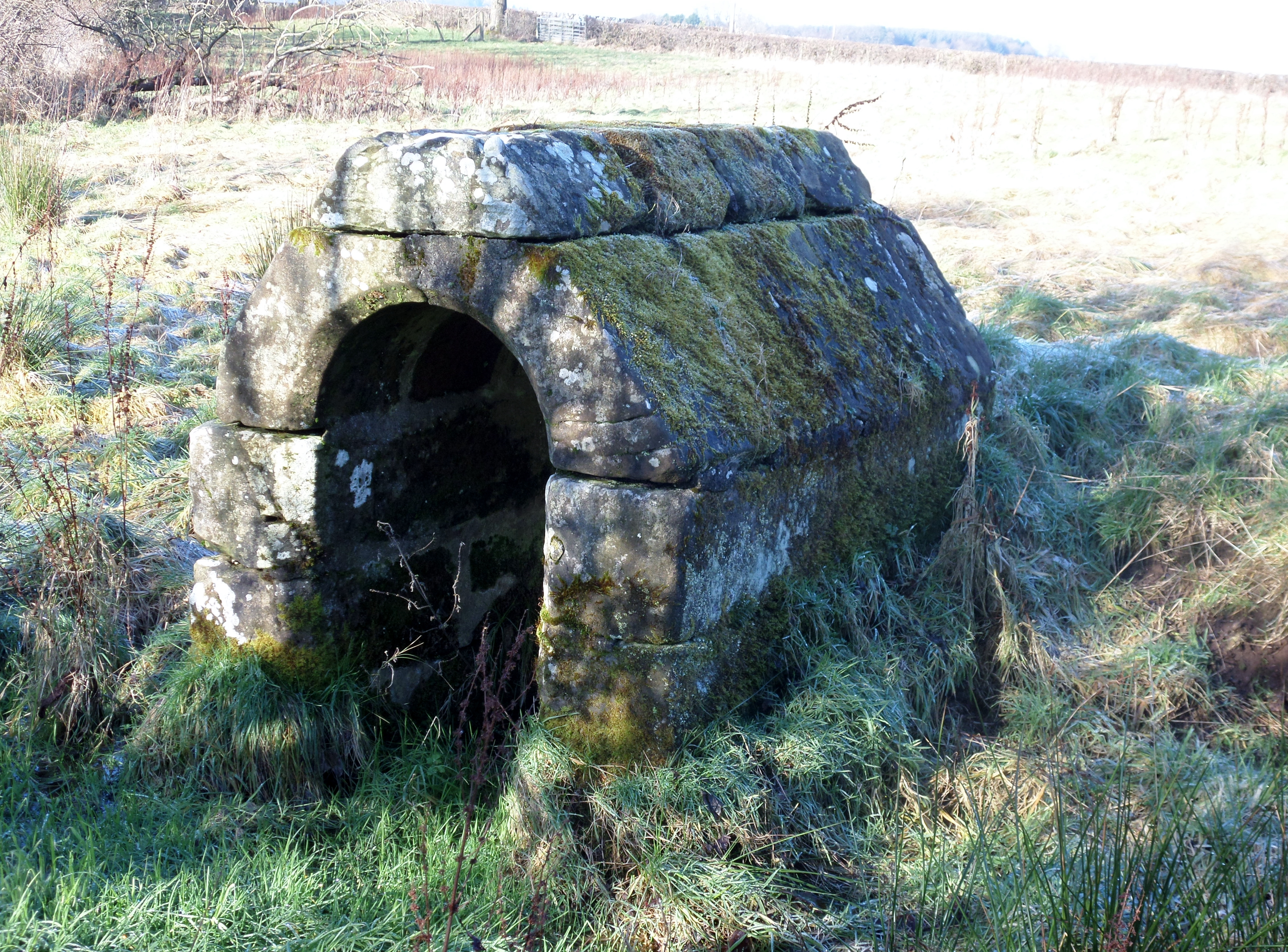 St Peter's Well, Houston - view from the east & opening. A rare example of a covered holy well near the site of an old chapel.